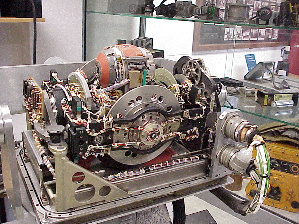 Litton LN3-2A Inertial Navigation Platform of the F-104G Super Starfighter